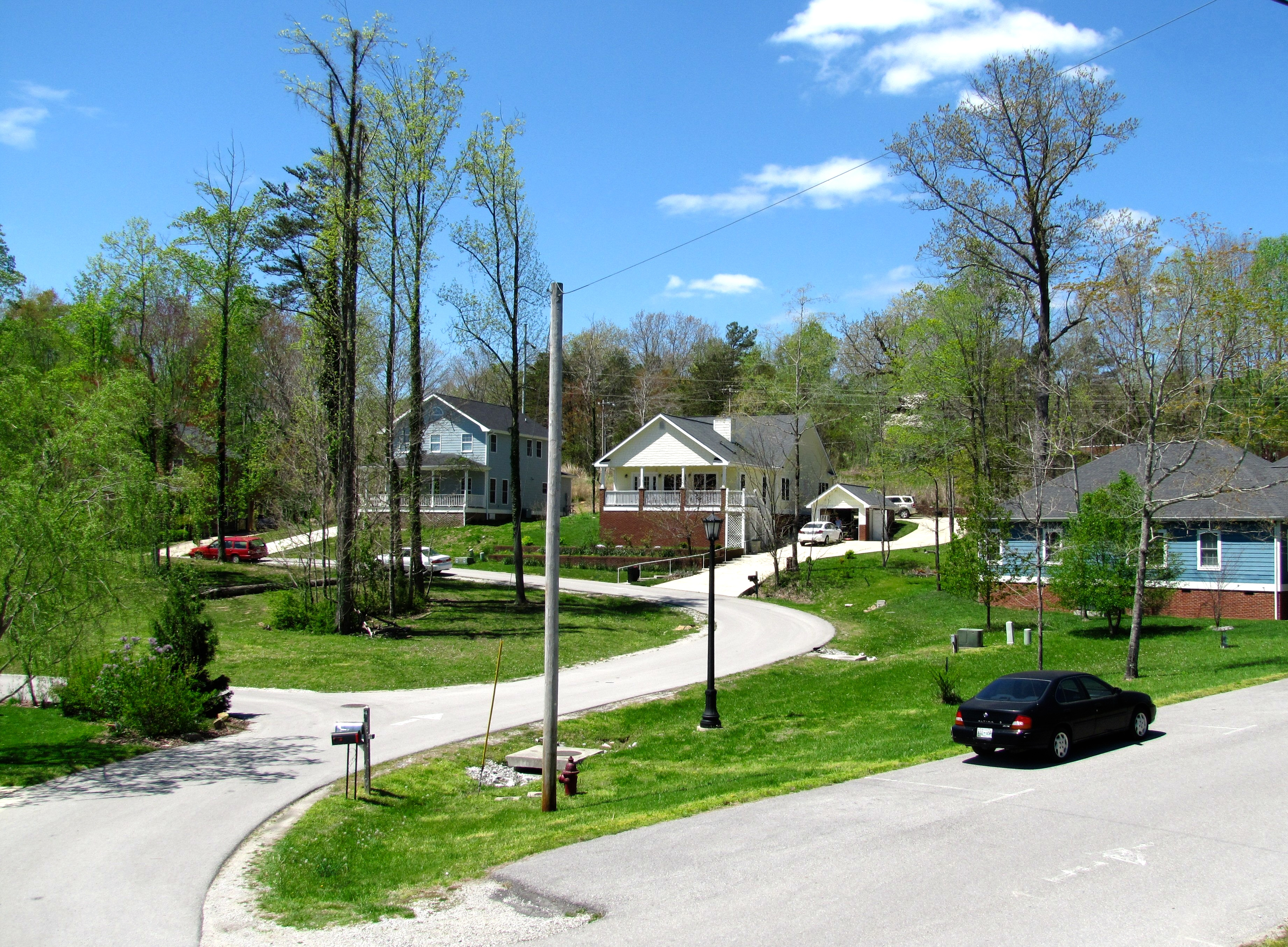 Houses in Sewanee, Tennessee, United States.